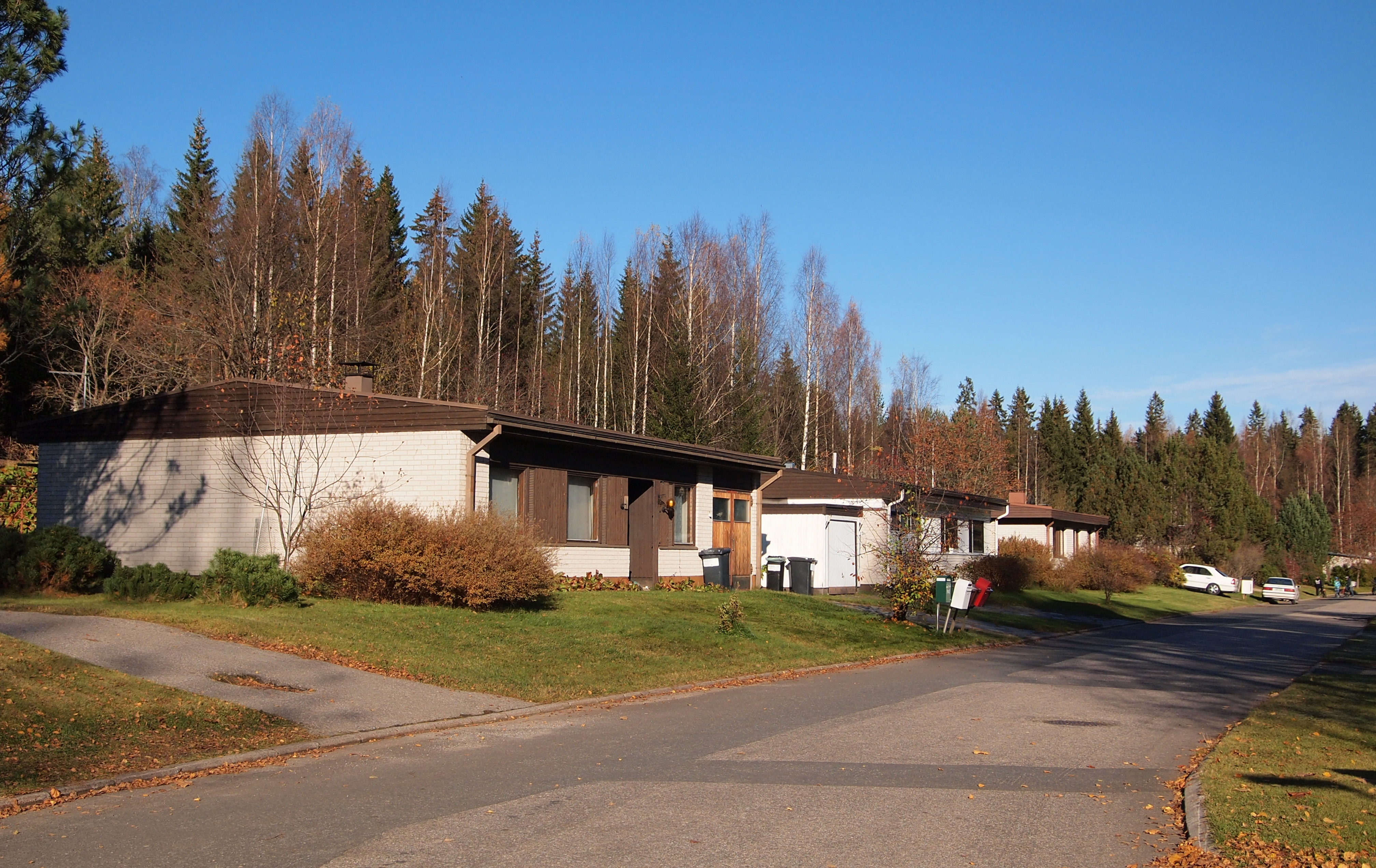 Street Orakkaantie in Jyväskylä.This photograph was taken with an Olympus E-PL1